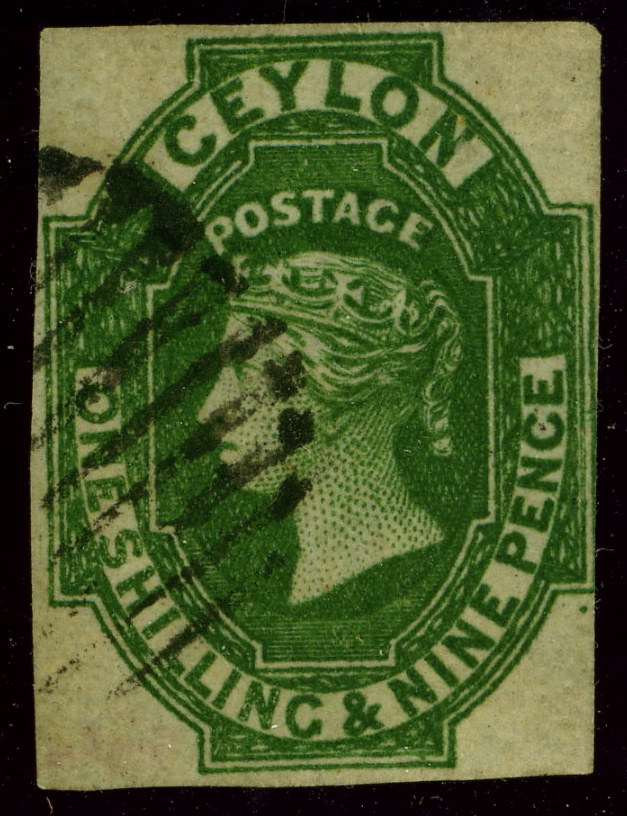 1 shilling & 9 pence green Ceylon issue 1859. Mi11, SG11.